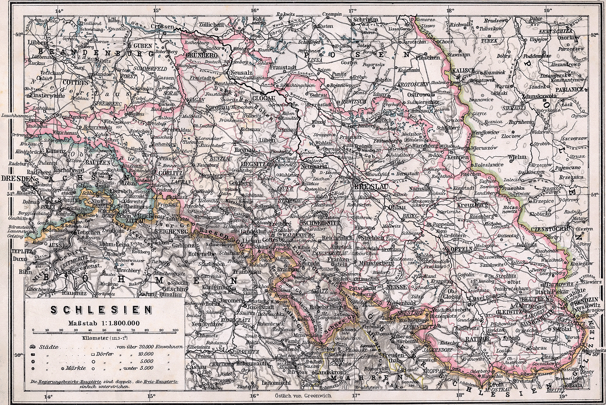 Historical map of Schlesien